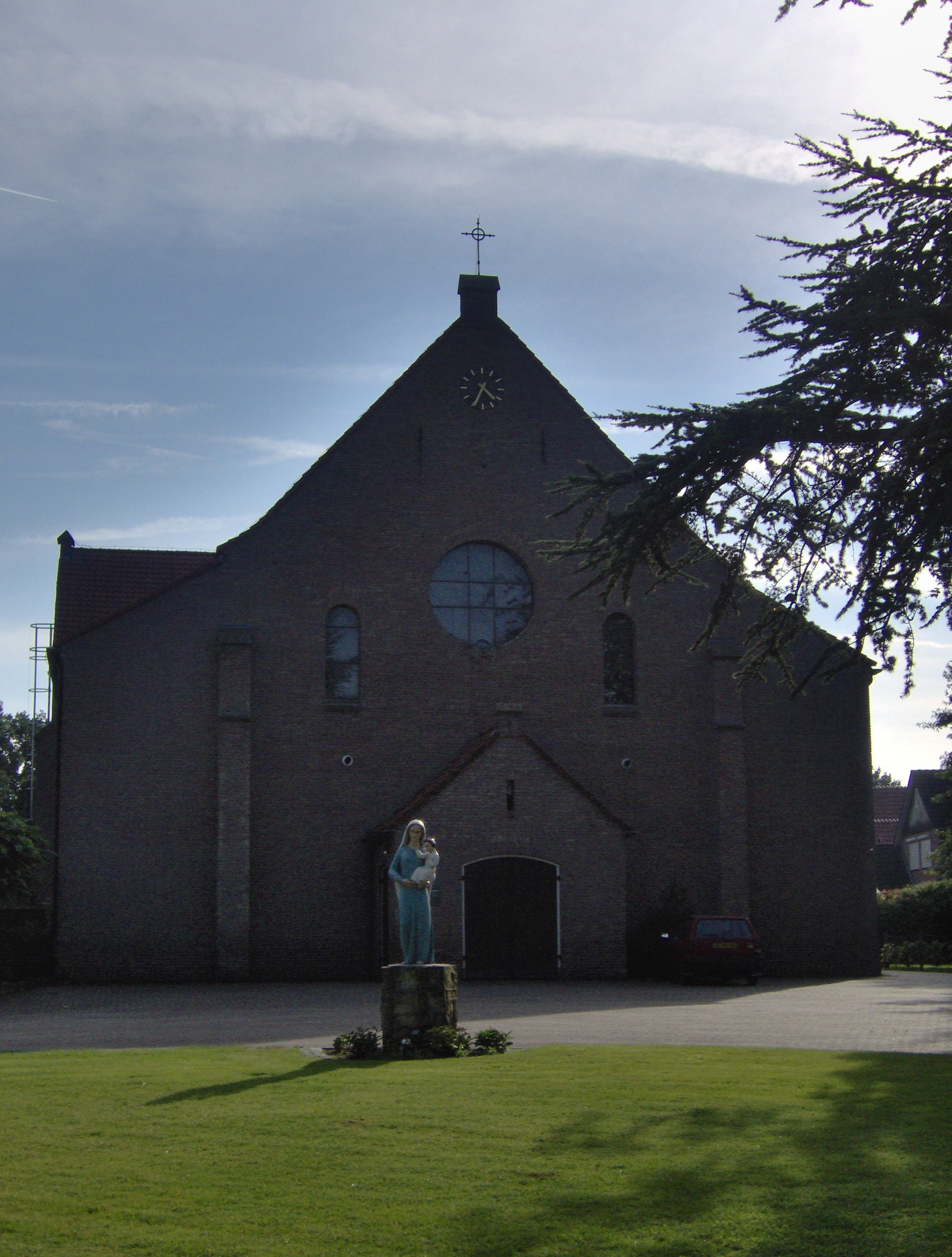 The Roman catholic church of Beuningen Location: Beuningen, a village in the municipality of Losser, Netherlands